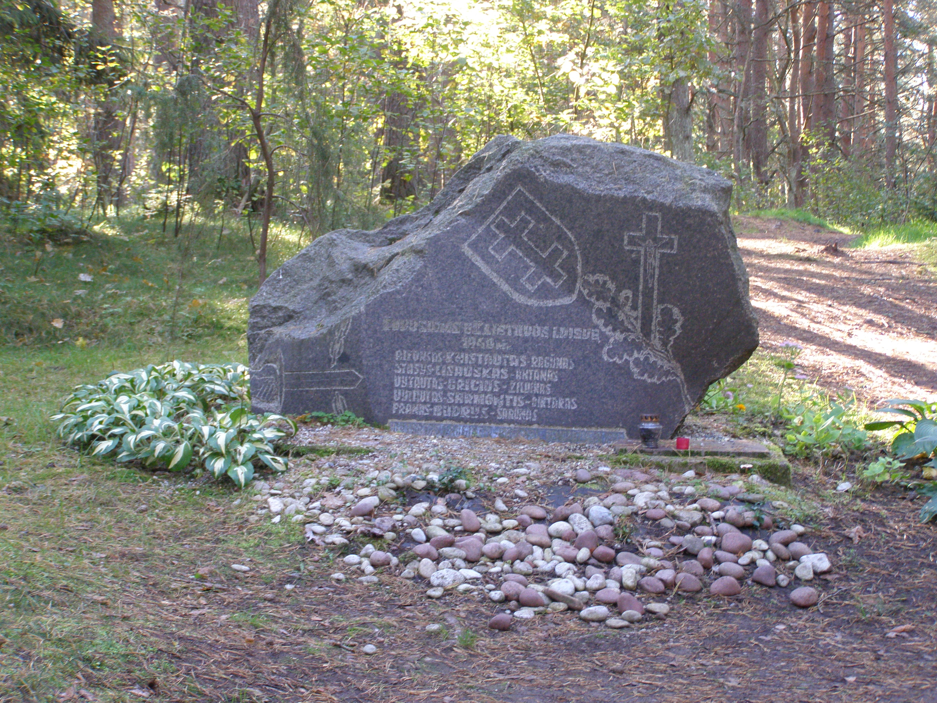 Žibininkai monument, Kretinga district, LithuaniaLietuvių: Paminklas Narimanto kuopos partizanams, Žibininkų k., Kretingos rajonas, Lietuva